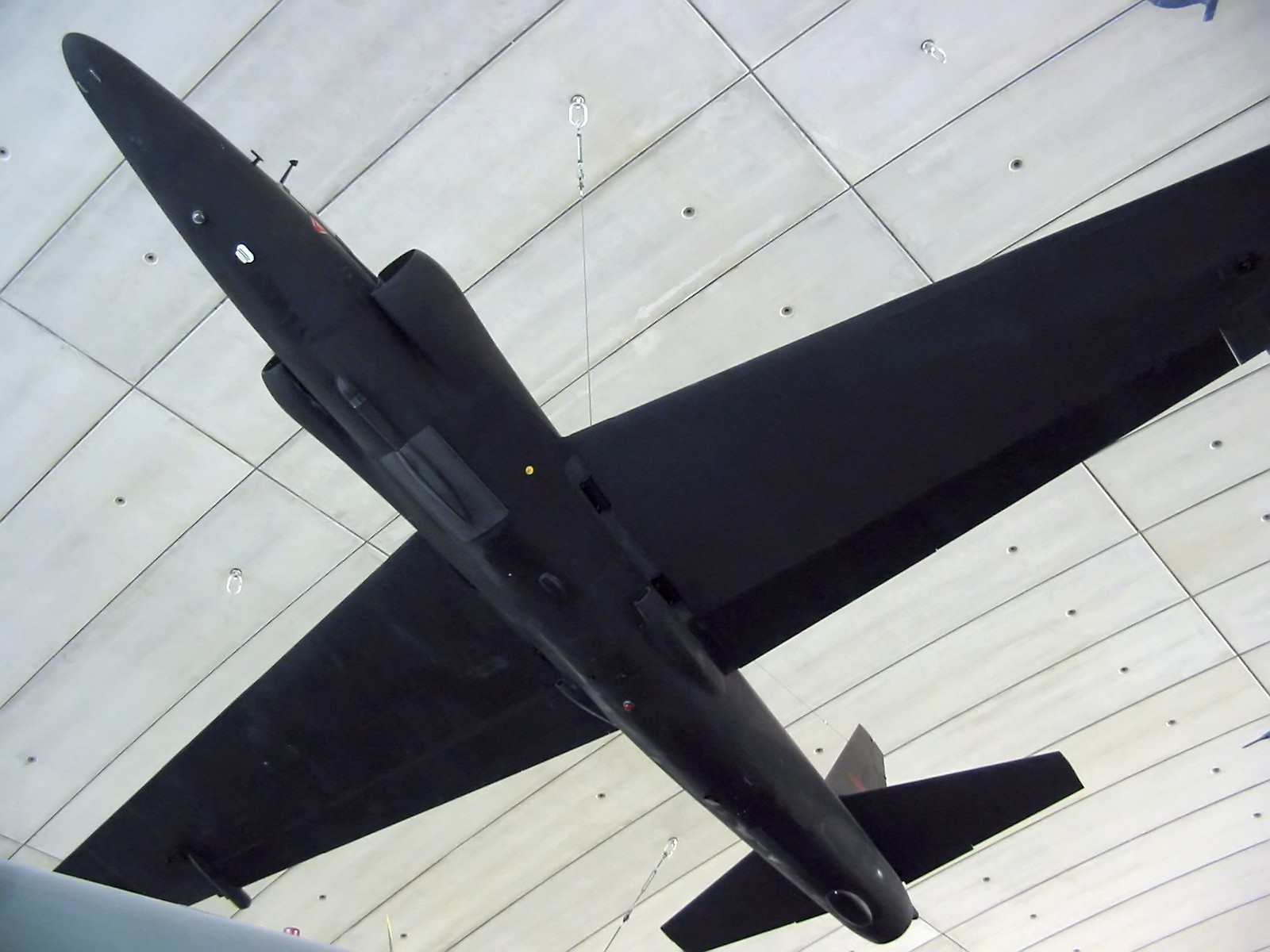 U2 at the Imperial War Museum, Duxford.